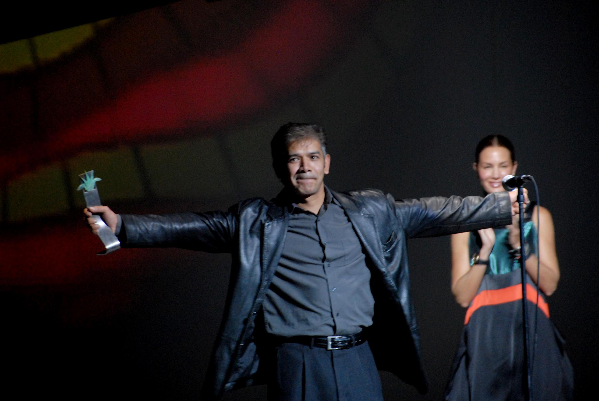 Mario Zaragoza receive the mayahuel award for best actor in the Guadalajara International Film Festival.